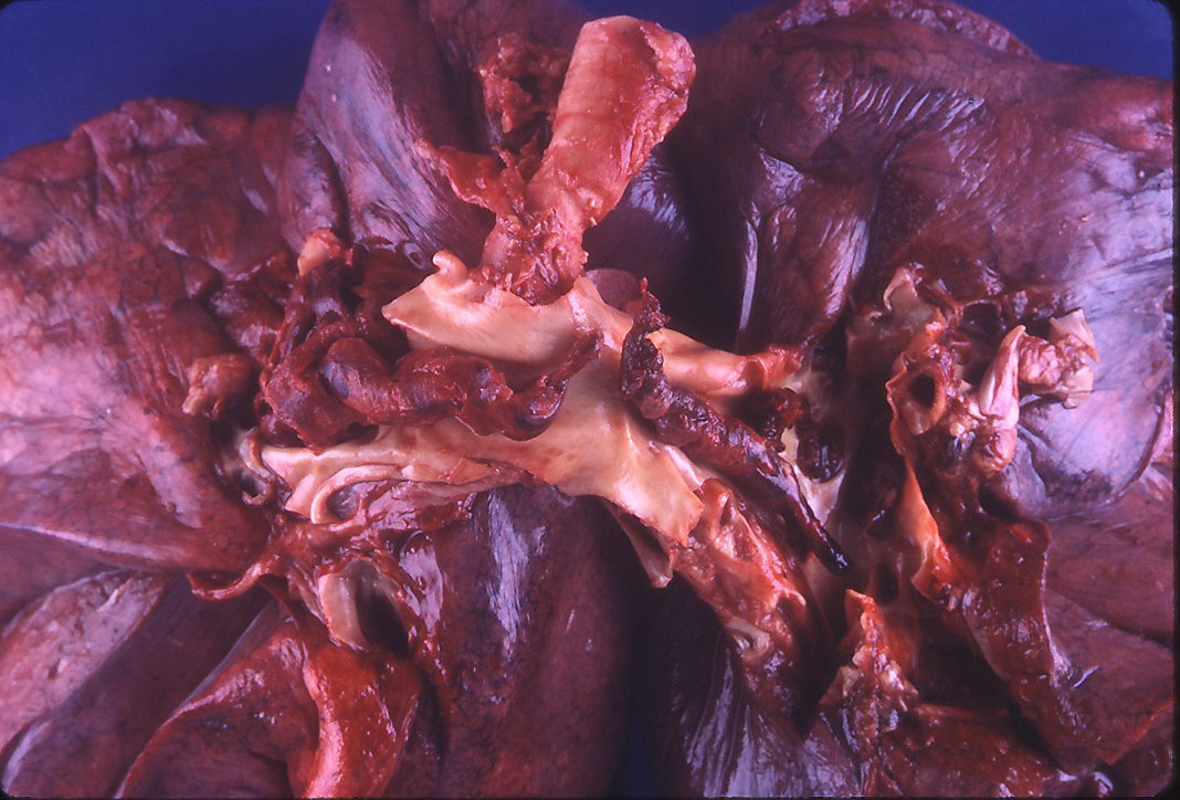 Saddle thromboembolus